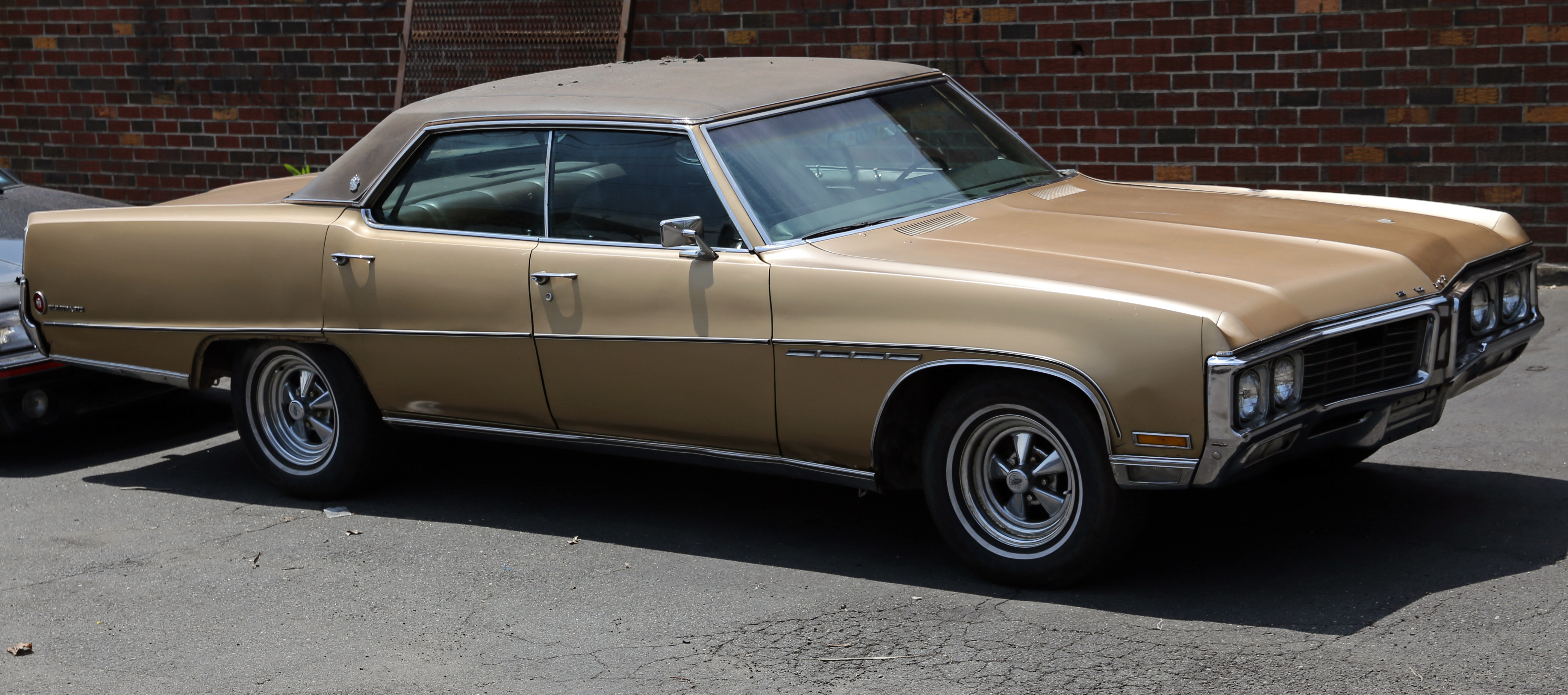 1970 Buick Electra 225 hardtop sedan. Period Cragar alloy wheels.